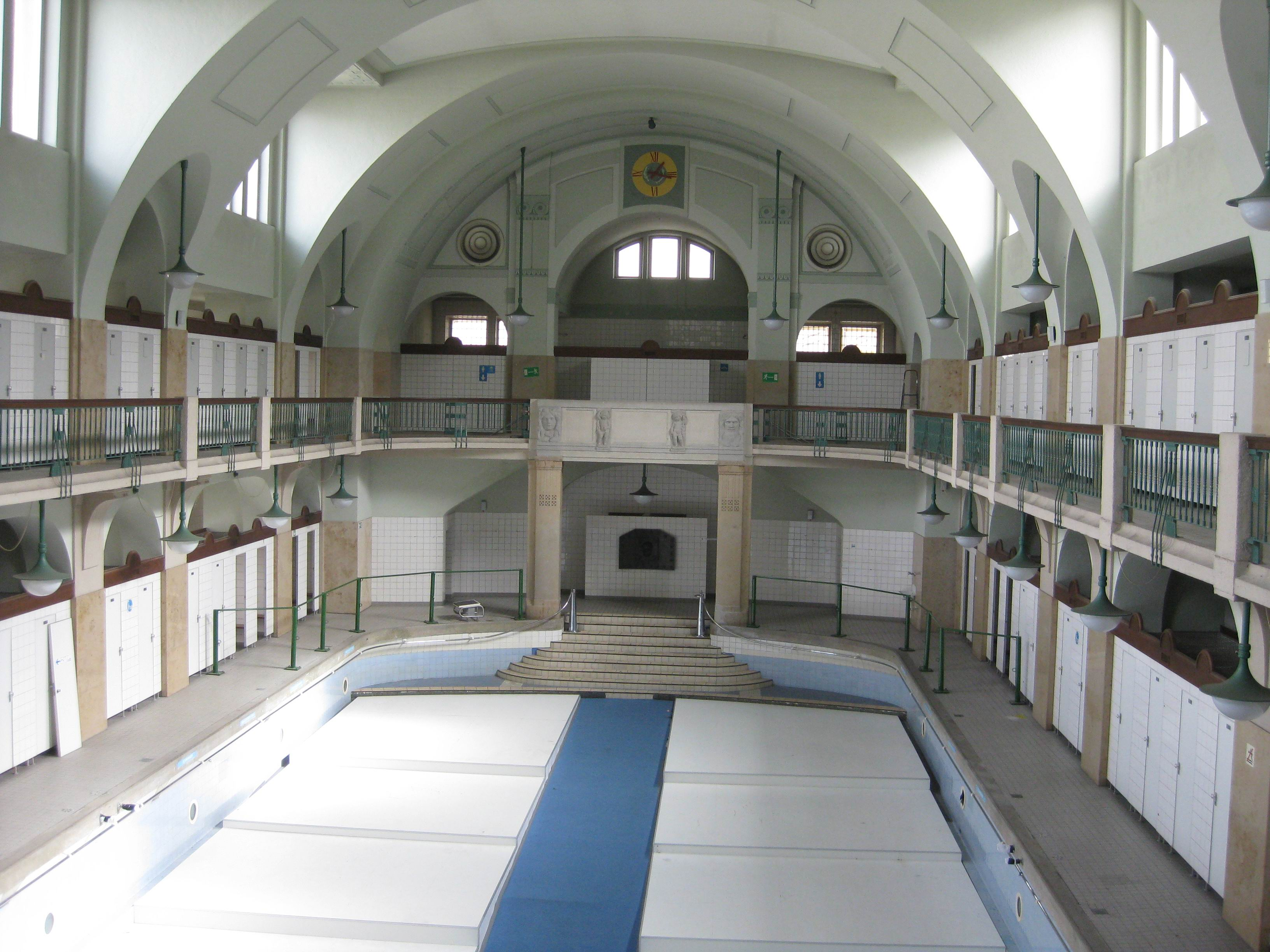 Foto of swimming hall of Volksbad in Nürnberg. Schwimmhalle II.